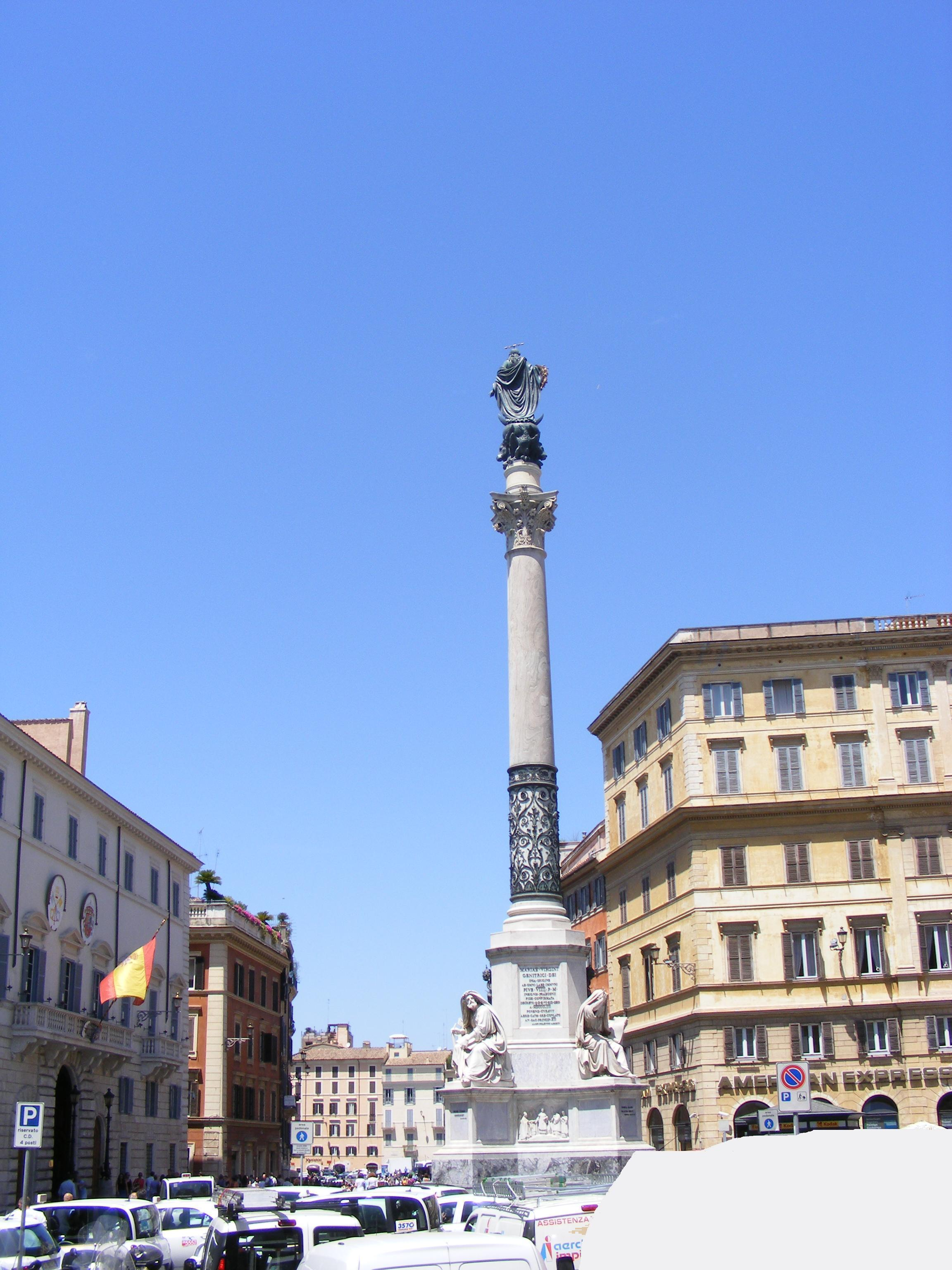 Colonna dell'Immacolata at Piazza di Spagna (Rome) - view to Northwest.